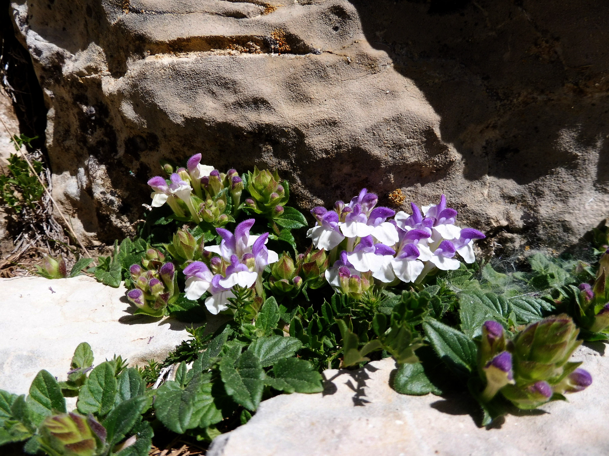 Scutellaria alpina. In la Bòfia, Odèn (Solsonès - Catalunya). To 2.010 m. altitude This is a a photo of a natural area in Catalonia, Spain, with id: ES510196